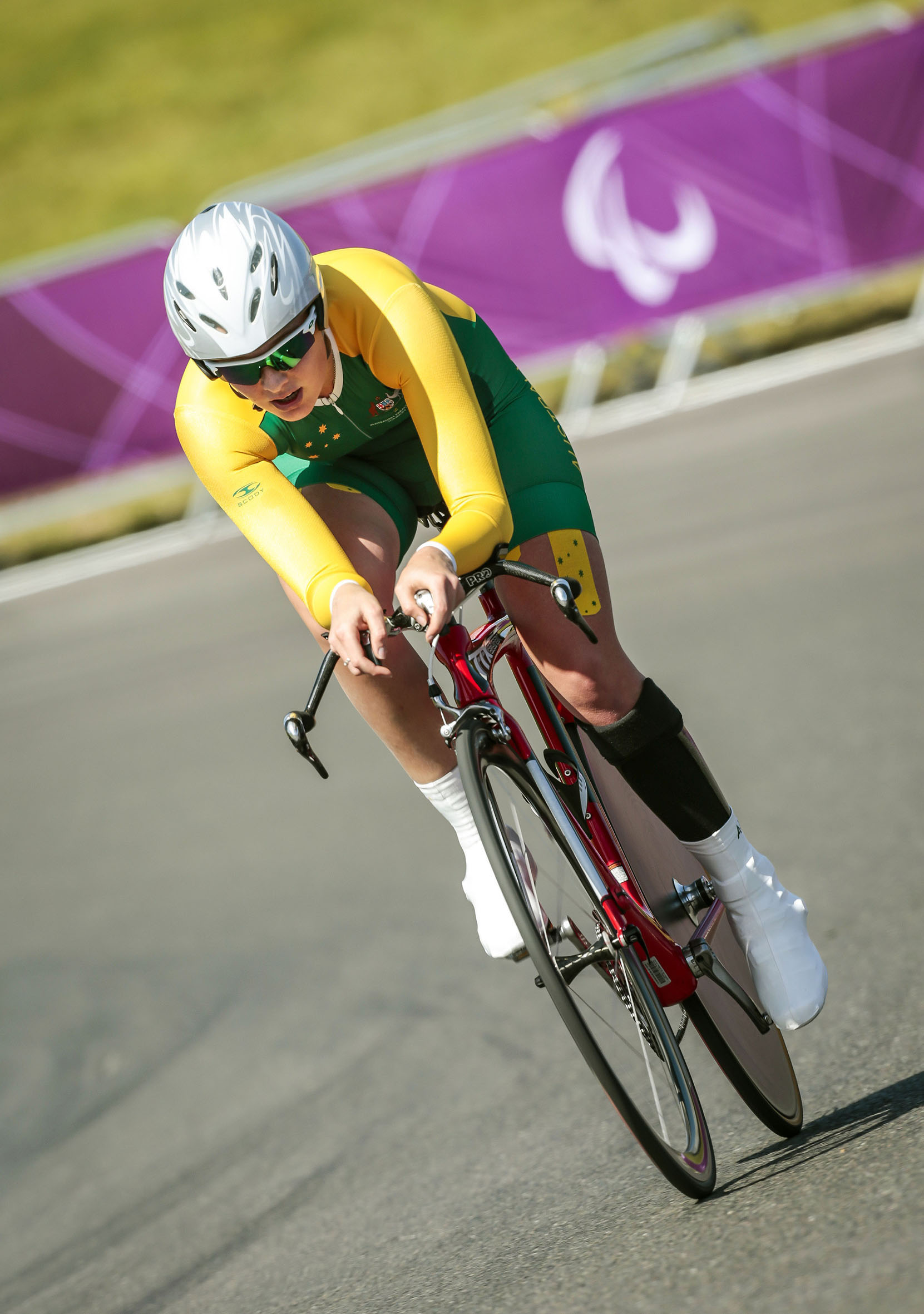 Photograph of Australian Paralympic team member Alexandra Green at the 2012 Summer Paralympic Games in London